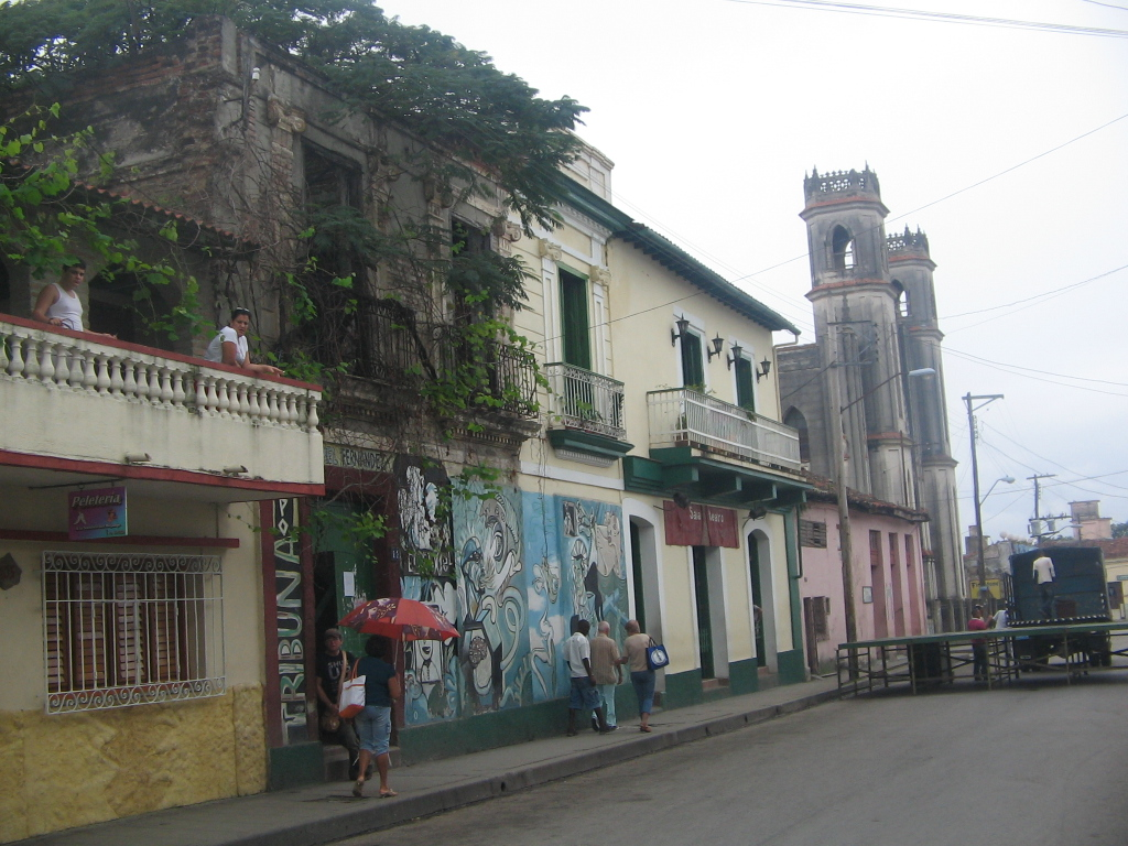 View of the facade of "El Mejunje" cultural centre in Santa Clara, Cuba. In background the St. Claire of Assisi Cathedral.